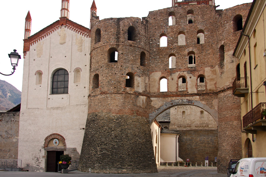 Porta Savoia a Susa (TO) con a sinistra la facciata della cattedrale di San Giusto